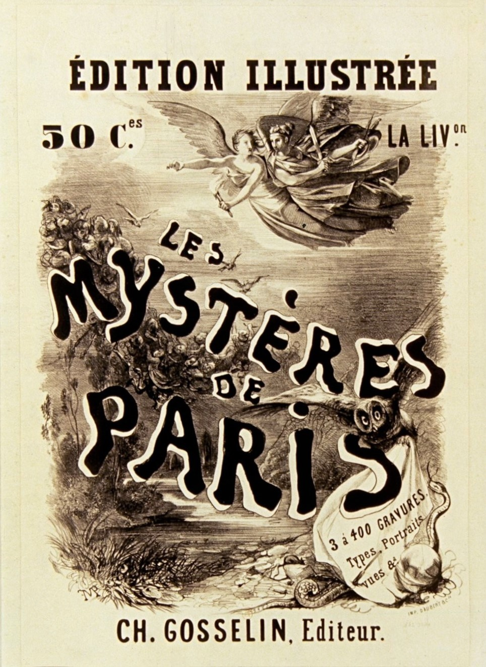 Poster announcing the publication of Les Mystères de Paris (1843), a French language novel by Eugène Sue (1804-1857)